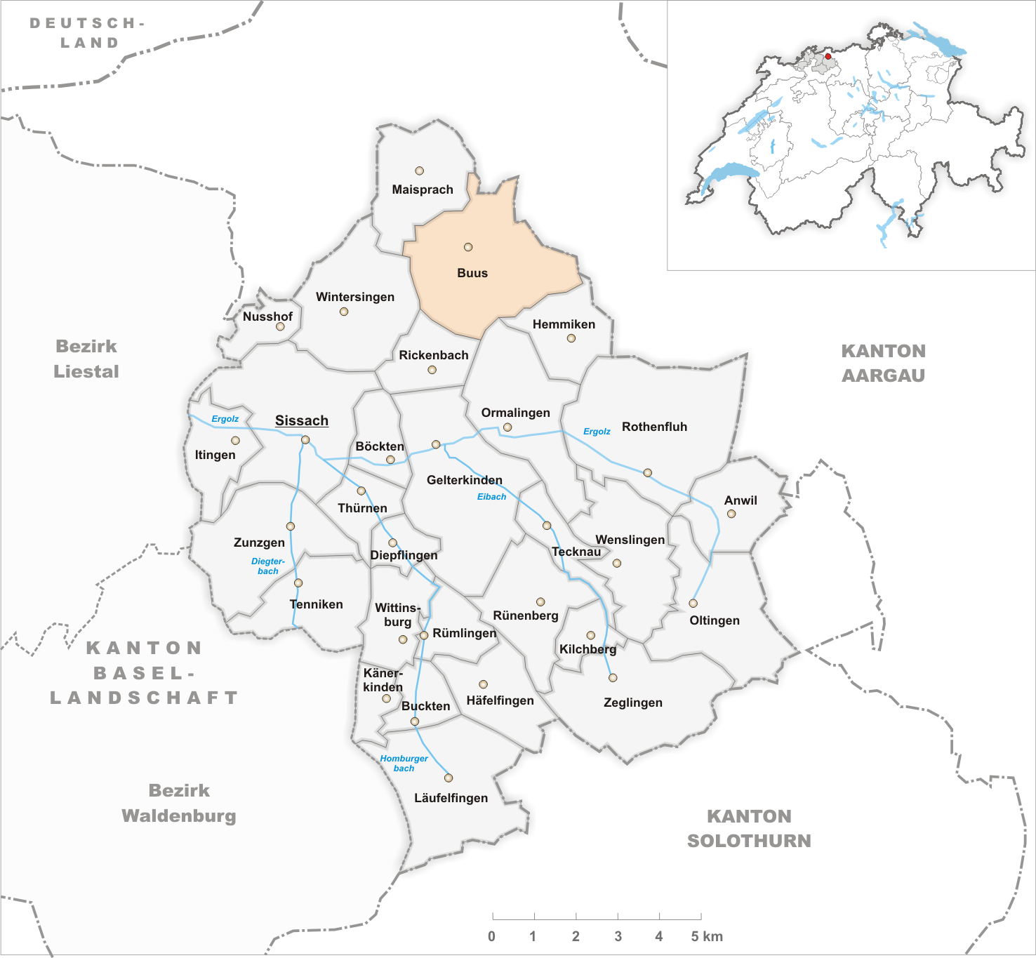 Municipality Buus